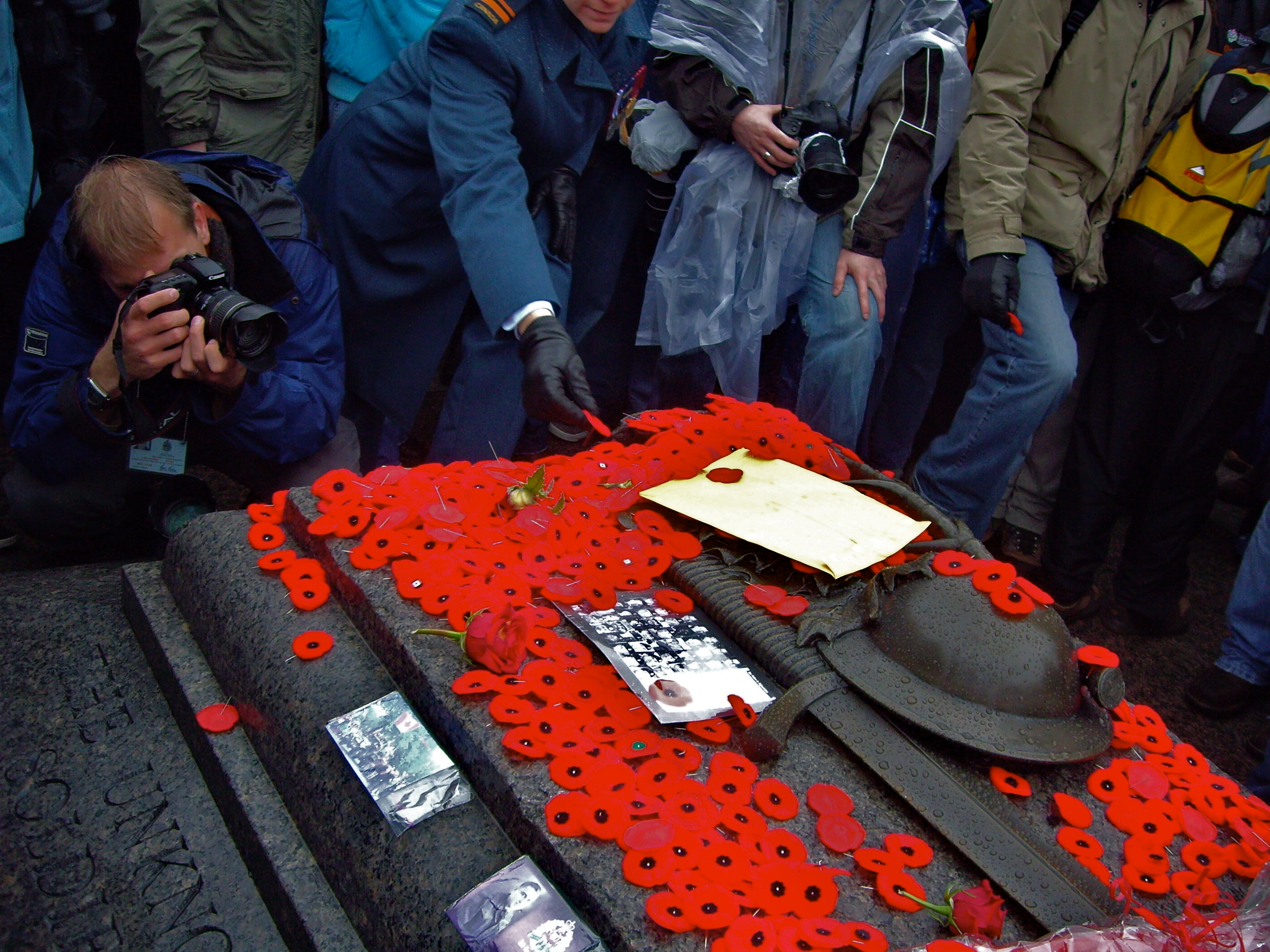 The Tomb of the Unknown Soldier in Confederation Square in Ottawa, Ontario, Canada, immediately following the Remembrance Day ceremonies on November 11, 2006. Since its installation, it has become traditional to place poppies on the Tomb after the formal ceremony has concluded.